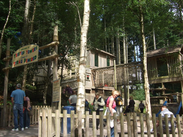 Treetop Towers at the Greenwood Centre Excellent - a tree house plus.